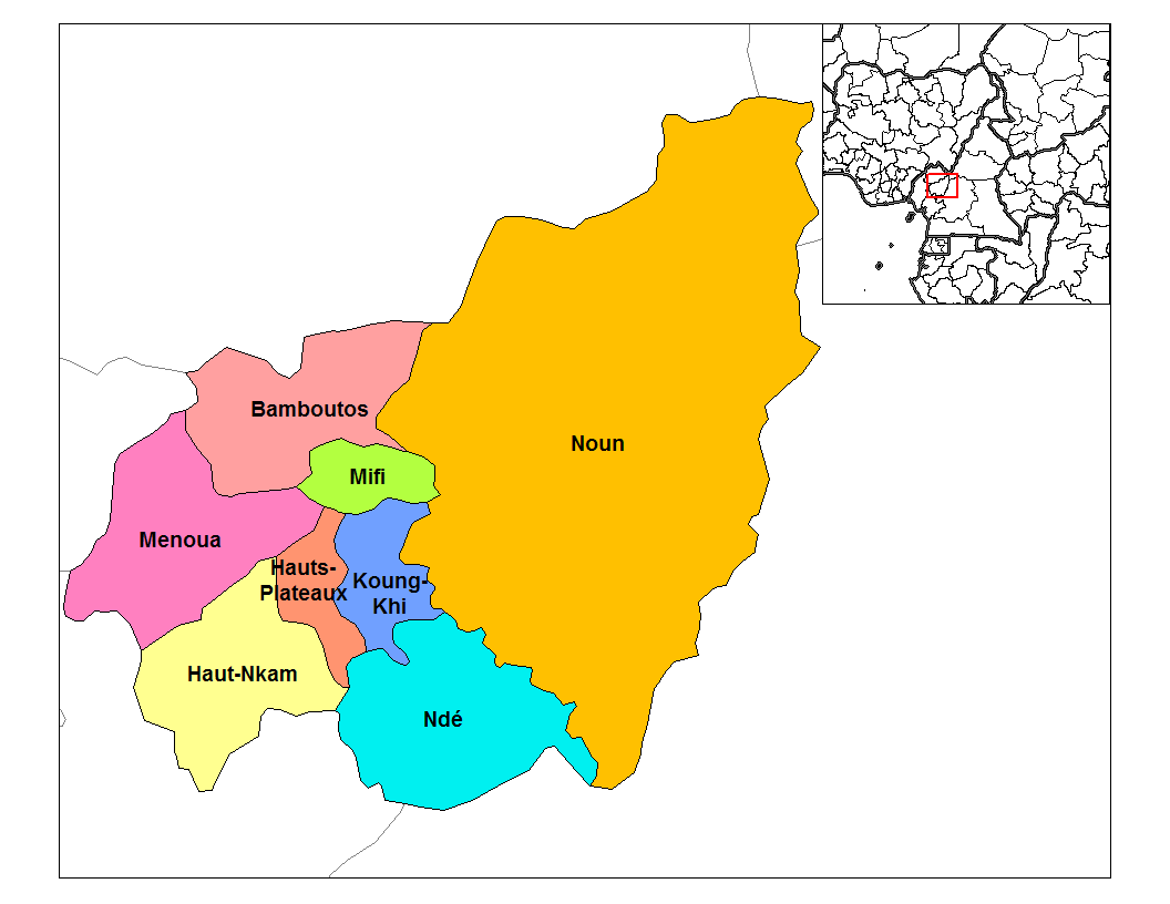 Map of the divisions of West province in Cameroon. Created by Rarelibra 19:58, 1 September 2006 (UTC) for public domain use, using MapInfo Professional v8.5 and various mapping resources.